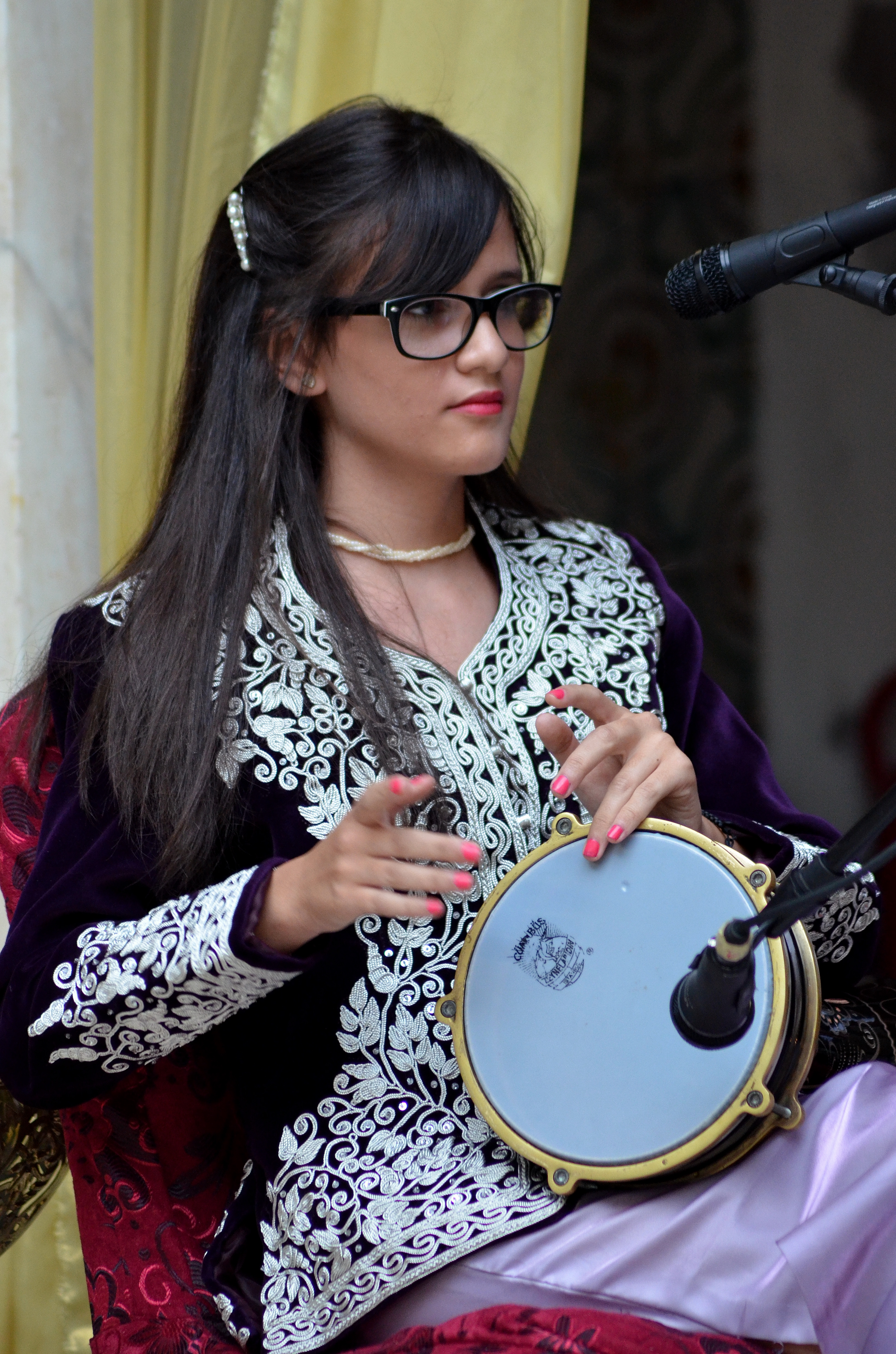 Girl in traditional dress playing the Darbouka during the National Festival of Andalusian music of Constantine This is an image of Cultural Fashion or Adornment from Algeria